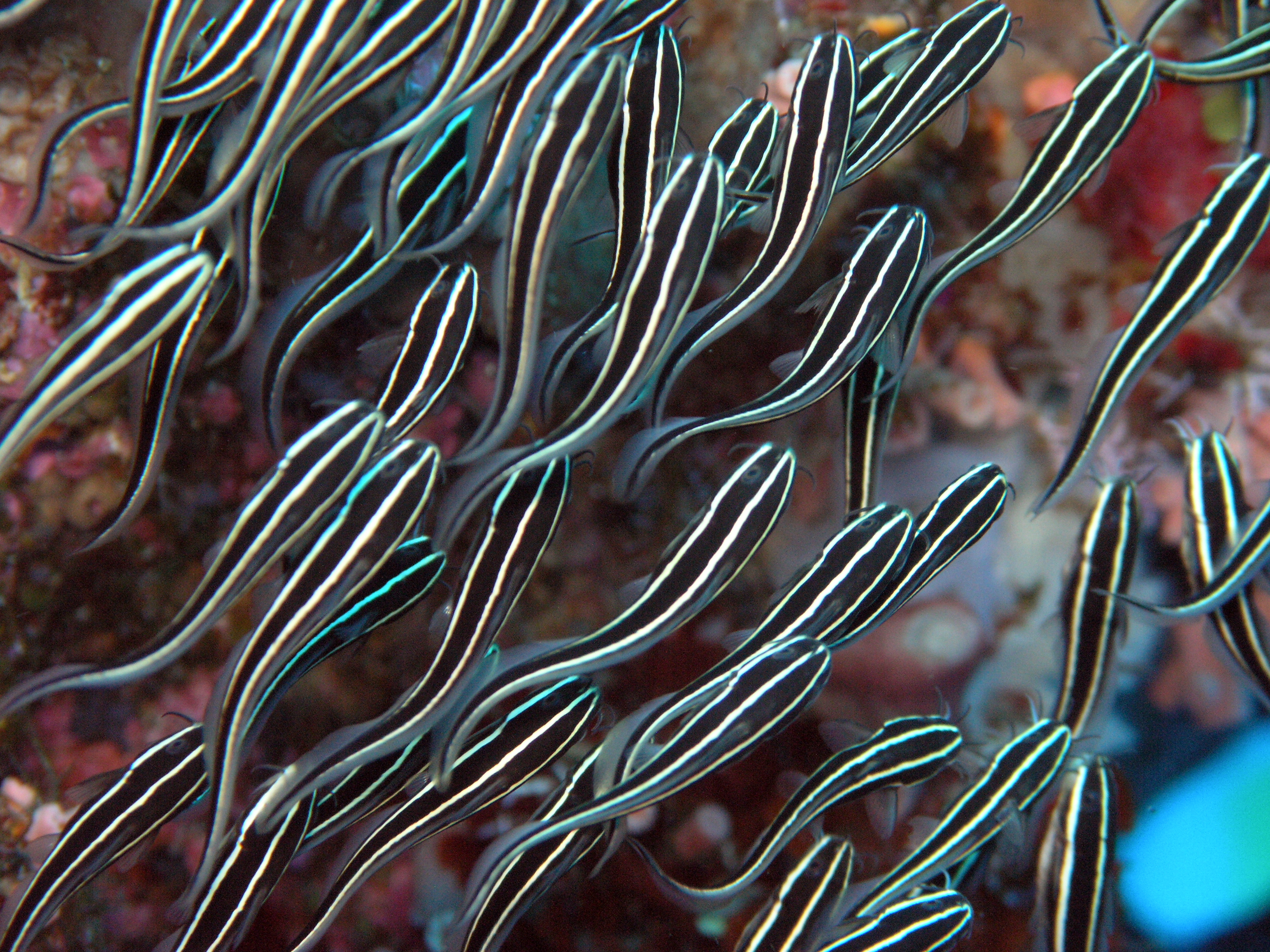 Striped eel catfish, Plotosus lineatus. Photo by J. Petersen taken in Manado, North Sulawesi, Indonesia.